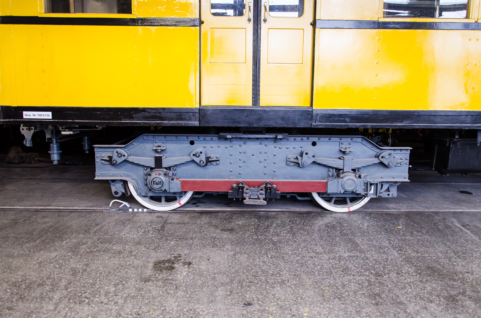 Bogie of subway car V4-156 (ex. BVG C1-104), depot Avtovo of Saint Petersburg Metro